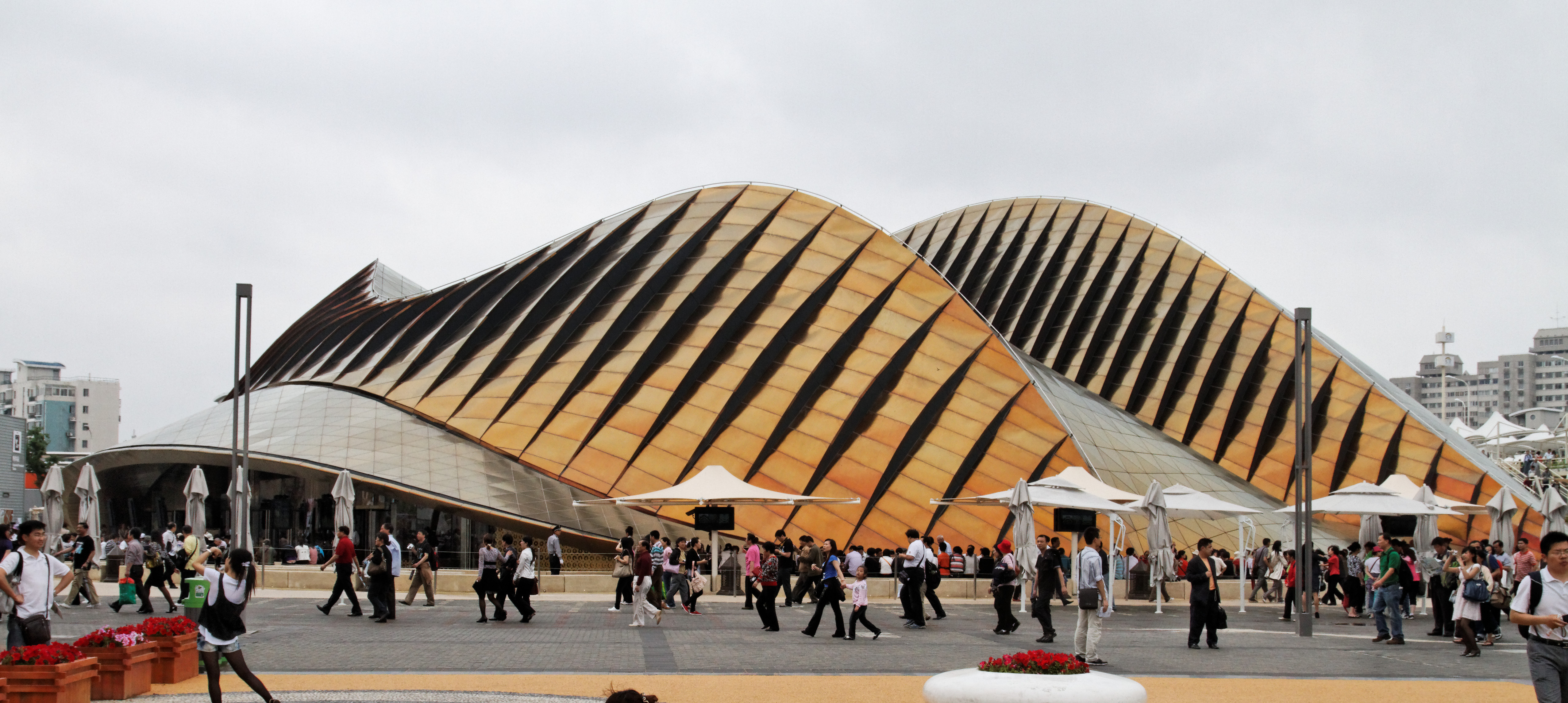 United Arab Emirates Pavilion of Expo 2010. Complete outside view; daytime.